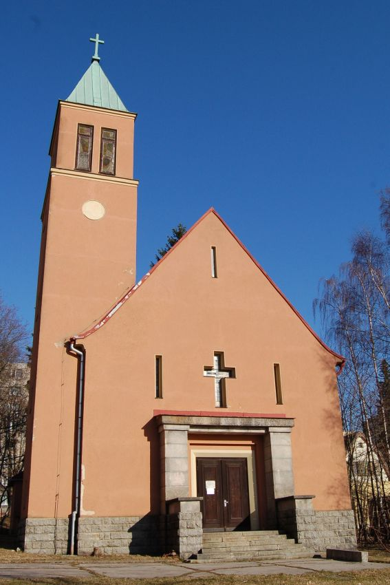 Holy Trinity church in Mšeno nad Nisou, part of Jablonec nad Nisou town, Czech Republic.